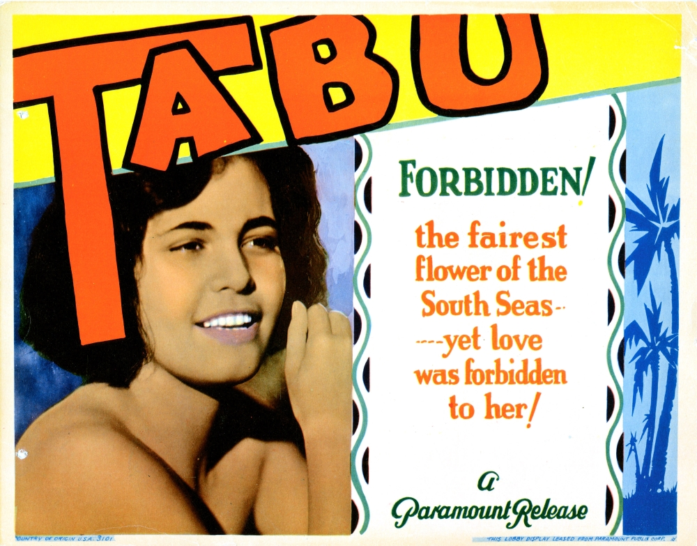 US lobby card of the film Tabu (1931), directed by F. W. Murnau.